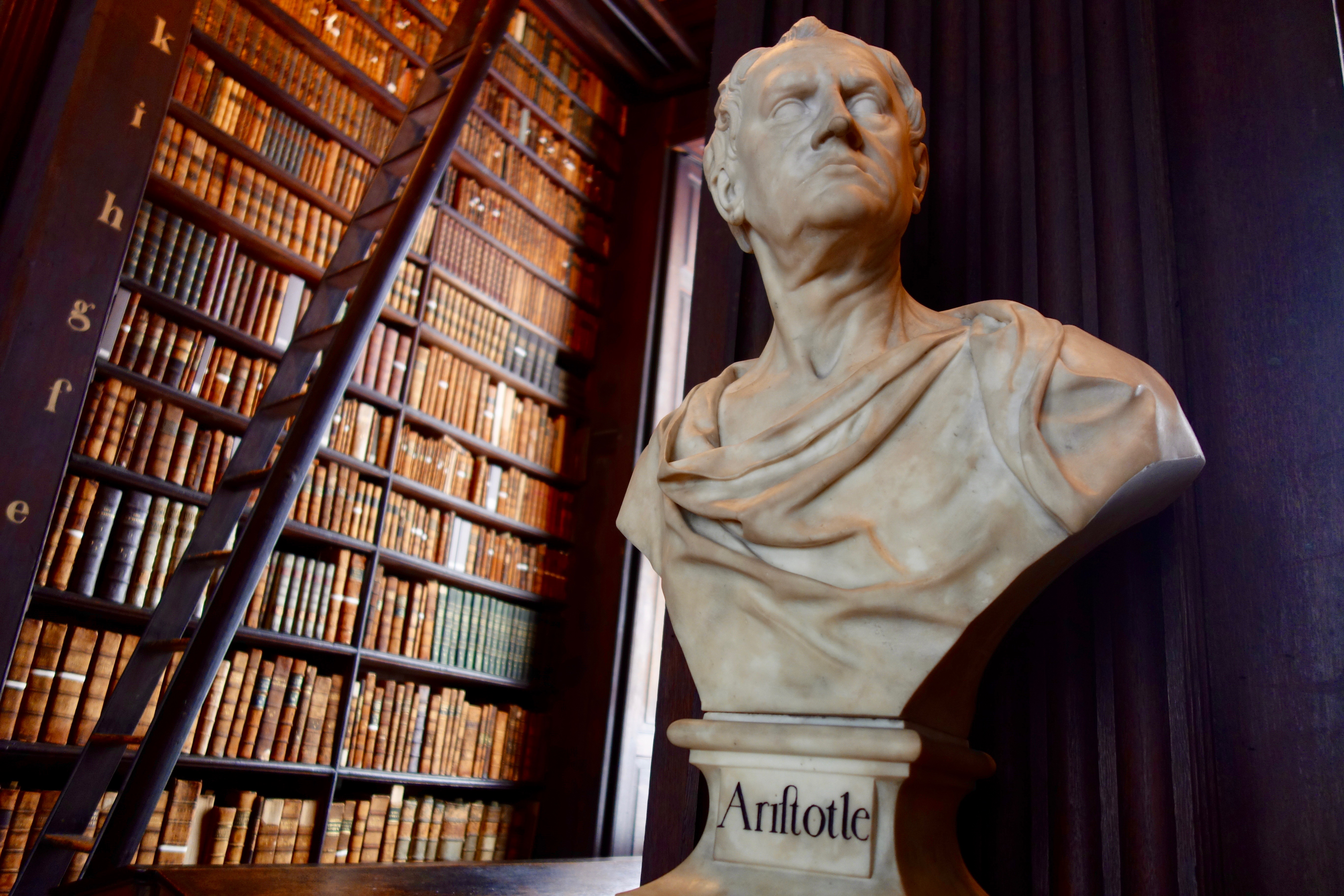 Long Room, Trinity College Dublin